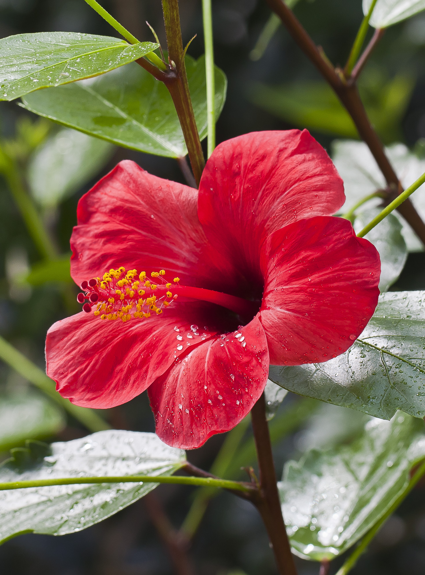 Chinese hibiscus (Hibiscus rosa-sinensis), Tallinn Botanic Garden, Estonia